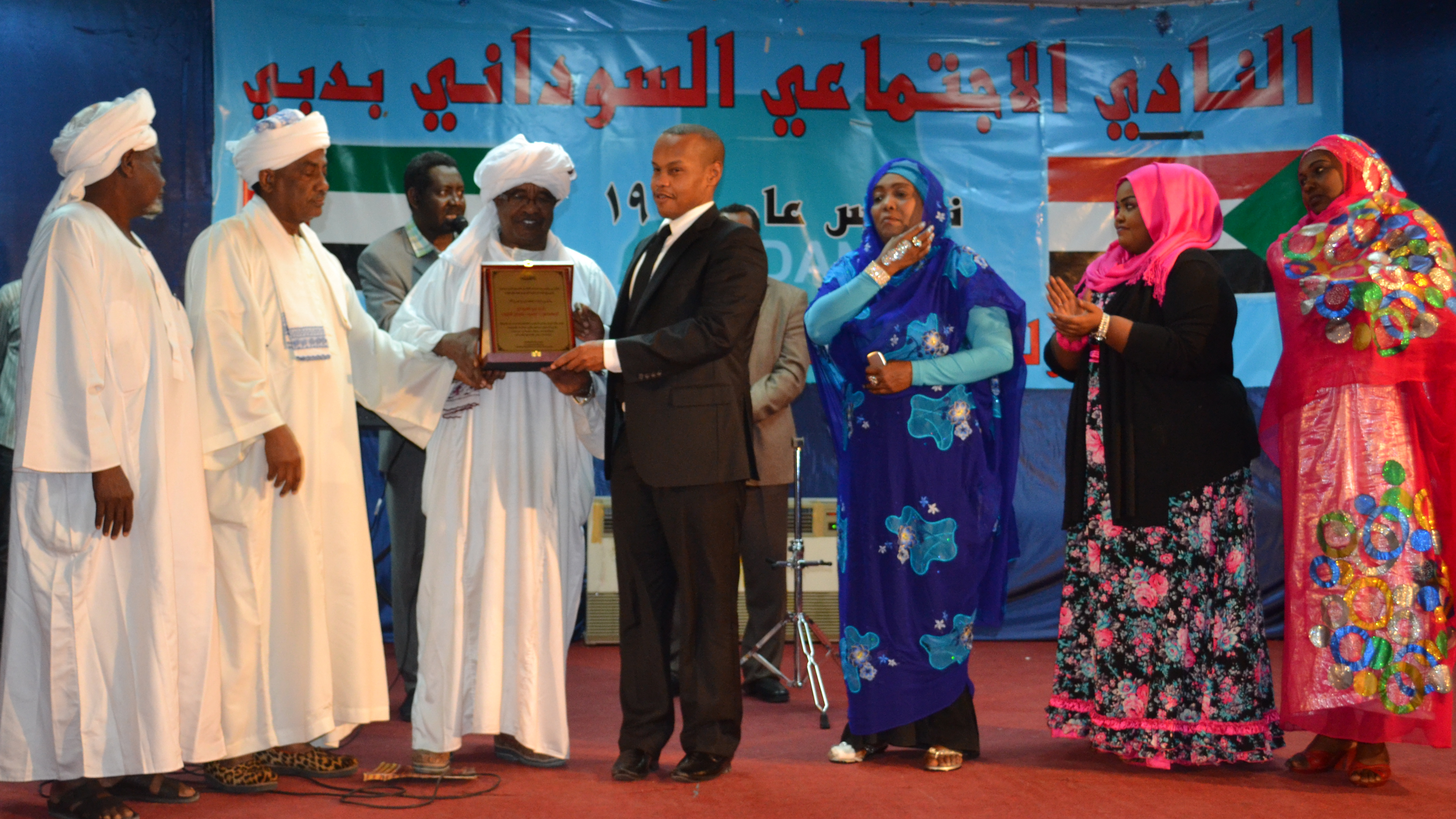 Honor from the higher Council for the Sudanese community in the UAE – On celebrations of Sudan's 56th Independence Day.2012